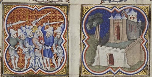 Nebuzaradan burns down the temple and the palace of Jerusalem